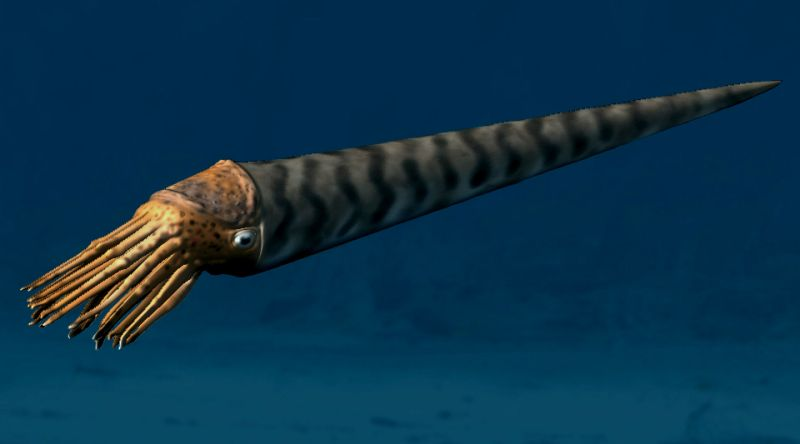 Orthoceras sp., nautiloid from the middle Ordovician. Digital.